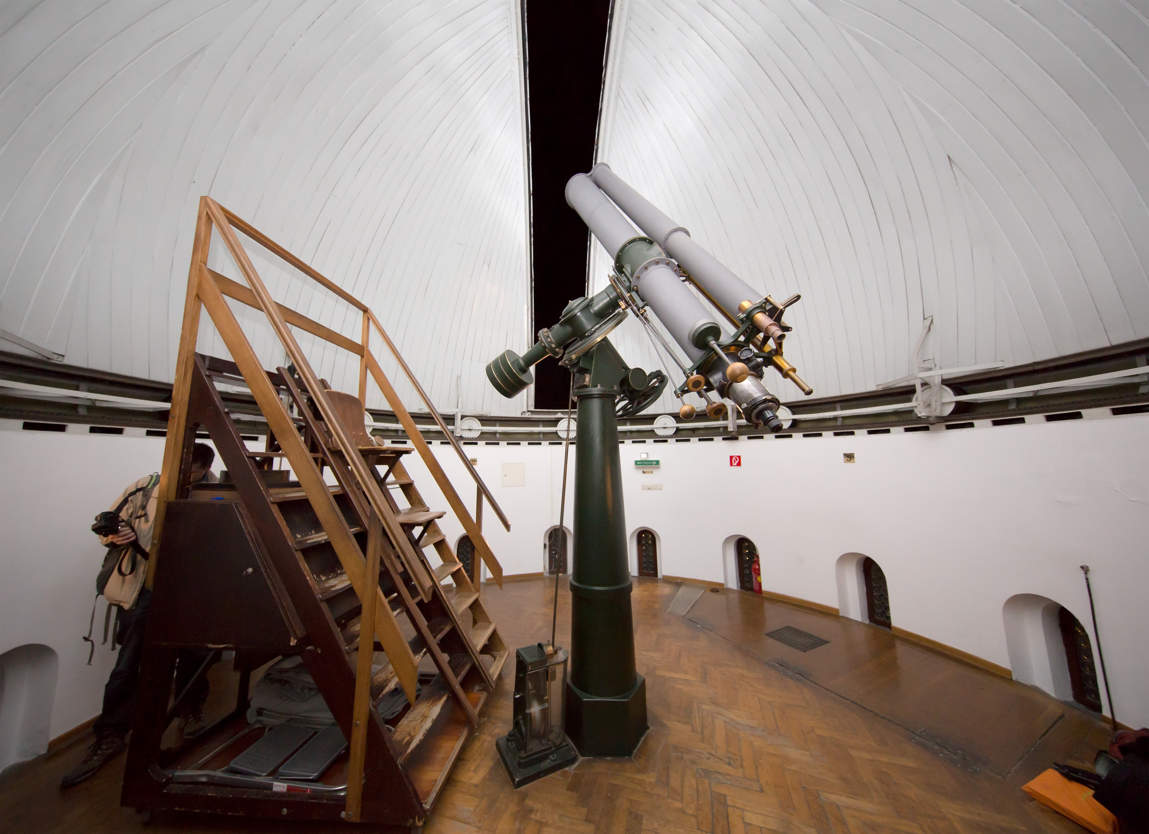 Kuffner Observatory, Vienna, Austria - the great refractor